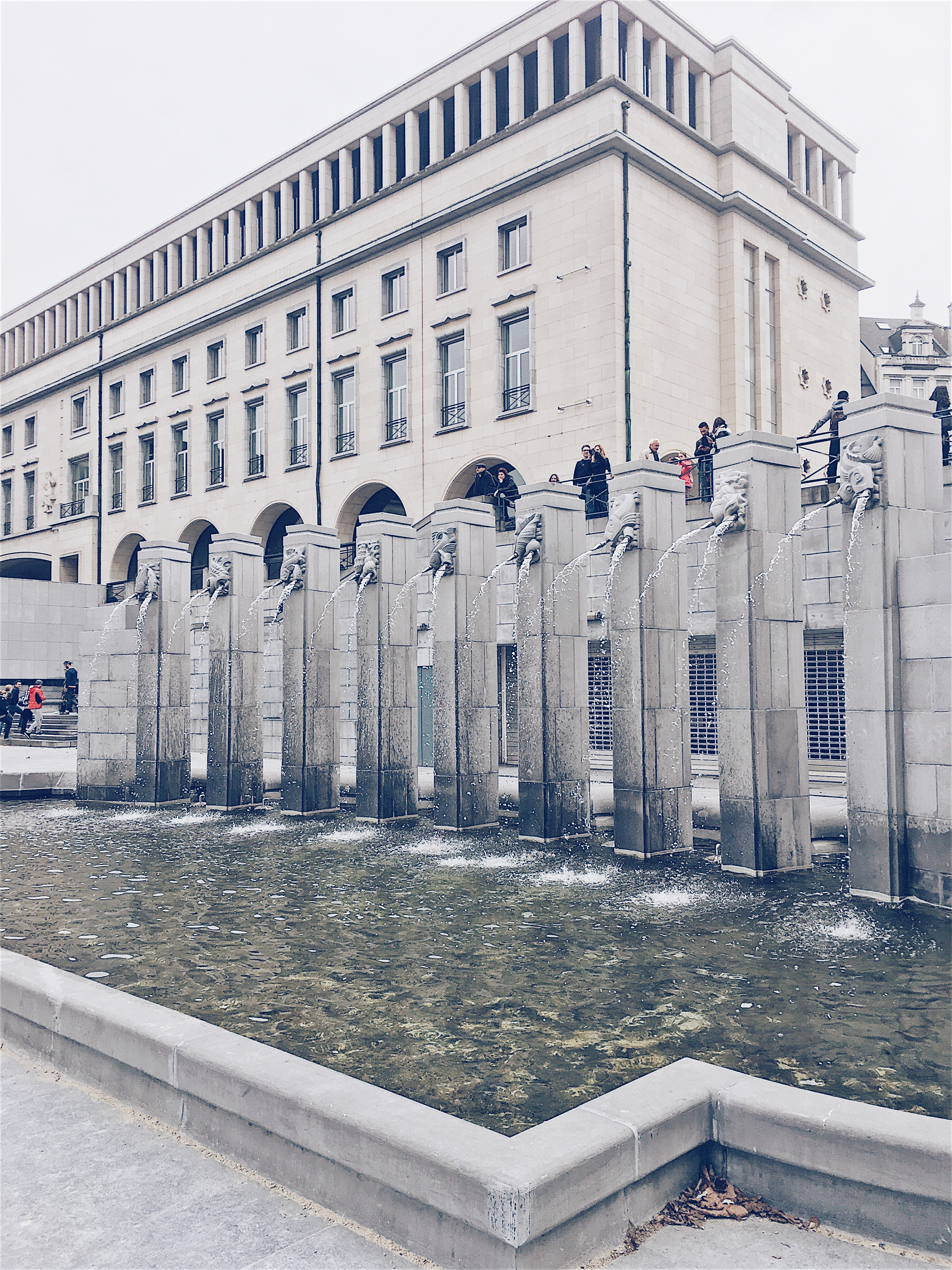 View on water fontaines